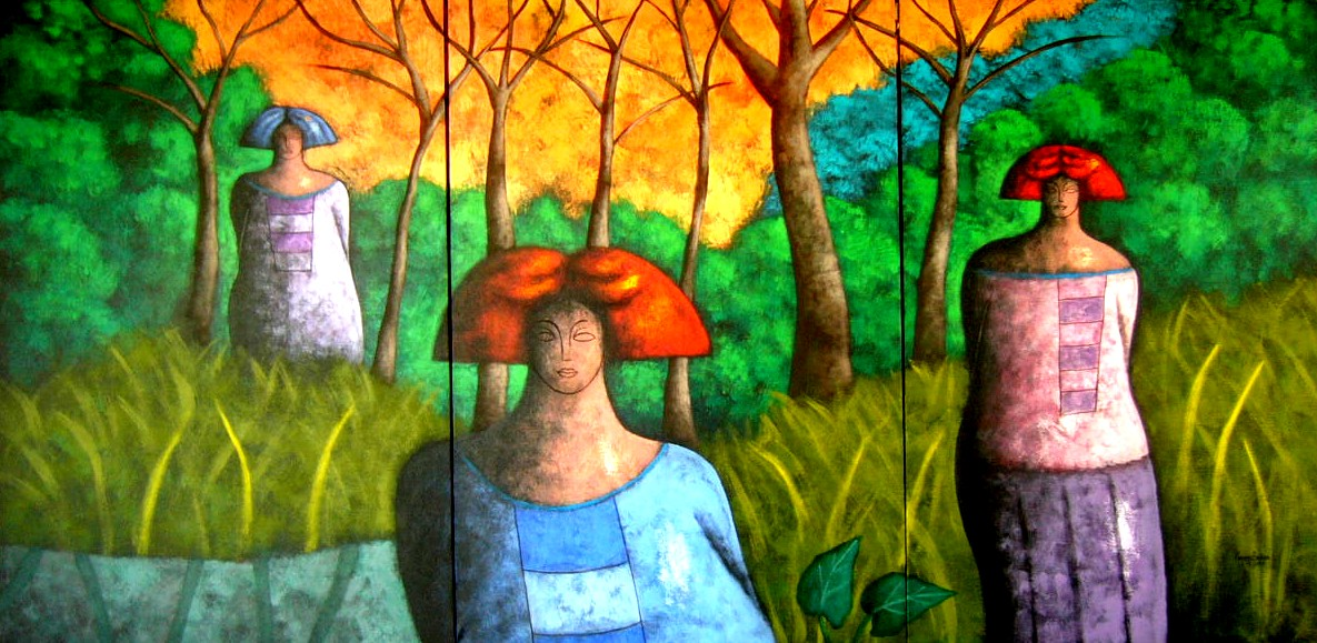 Acrylic painting.